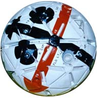 AERCAM Sprint